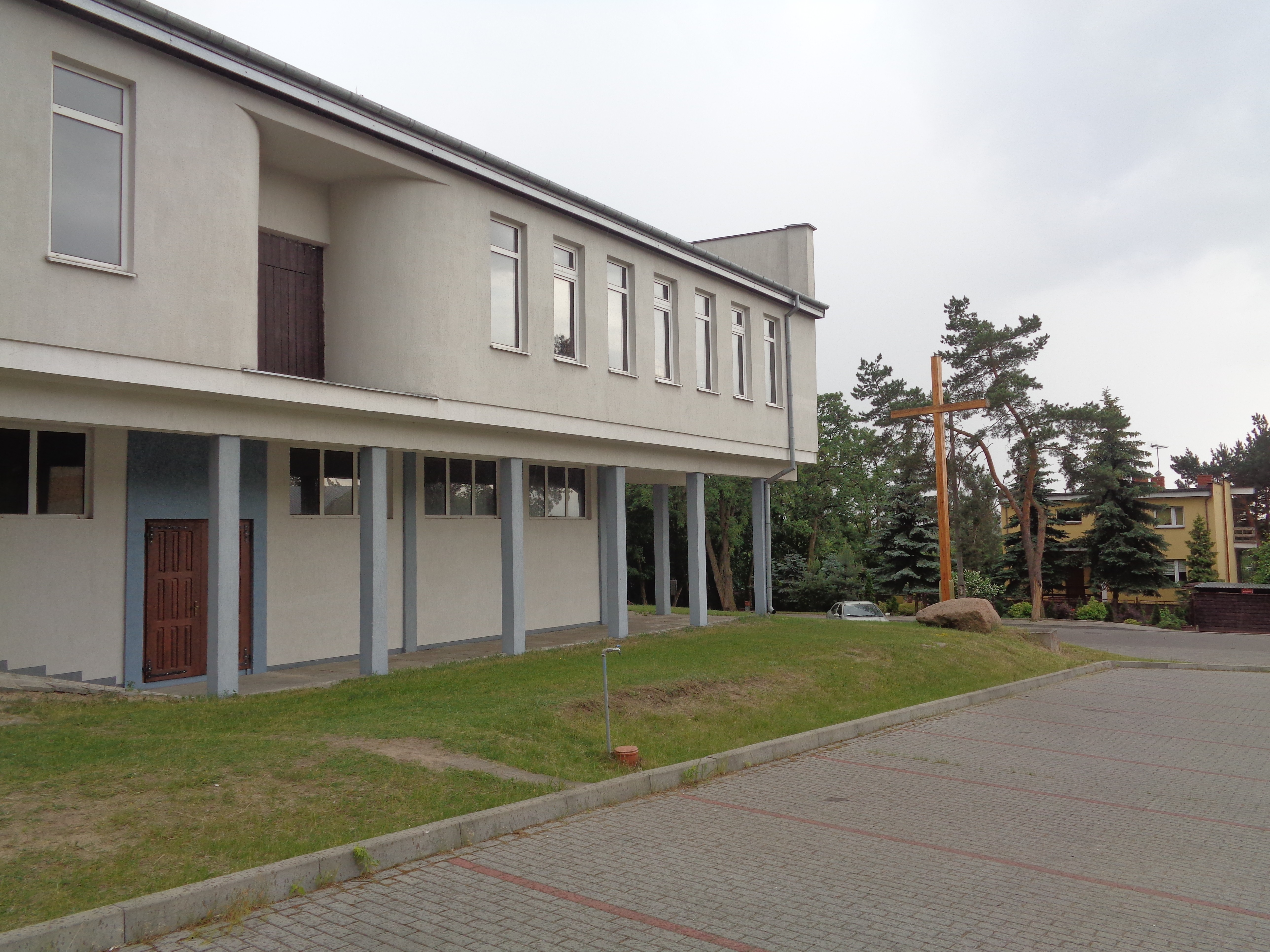 Backyard of Church of the Saintest Mary Queen of Poland at Krokusowa street on Zawiśle district in Włocławek.